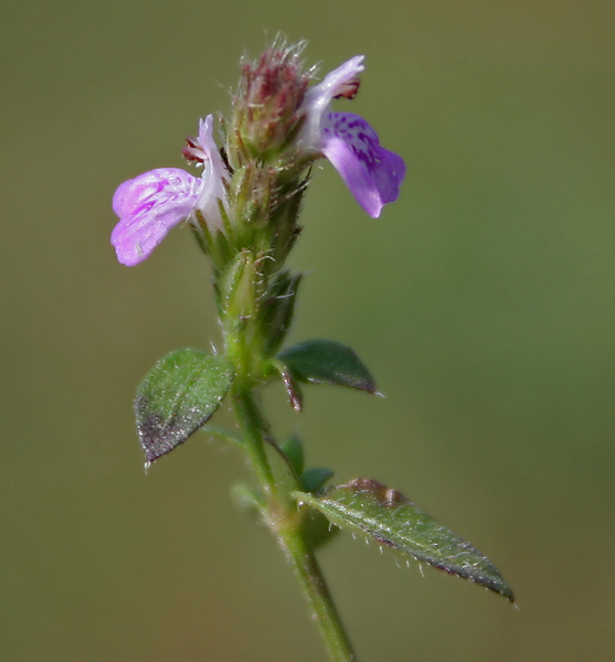 Marsh Carpet or Ran-tewan Hygrophila serpyllum in Hyderabad, India.